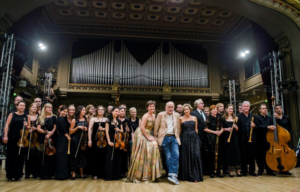 The Infernal Comedy – Confessions of a Serial Killer, creitd: Andrei Gîndac